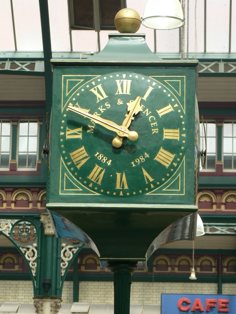 M&S Centenary Clock, Kirkgate Market, Leeds. Marks and Spencer started as Marks Penny Bazaar in Leeds Market. The clock celebrates the centenary in 1984. A legend in my family says that Michael Marks offered a partnership to my great grandfather, who turned him down! See 190757